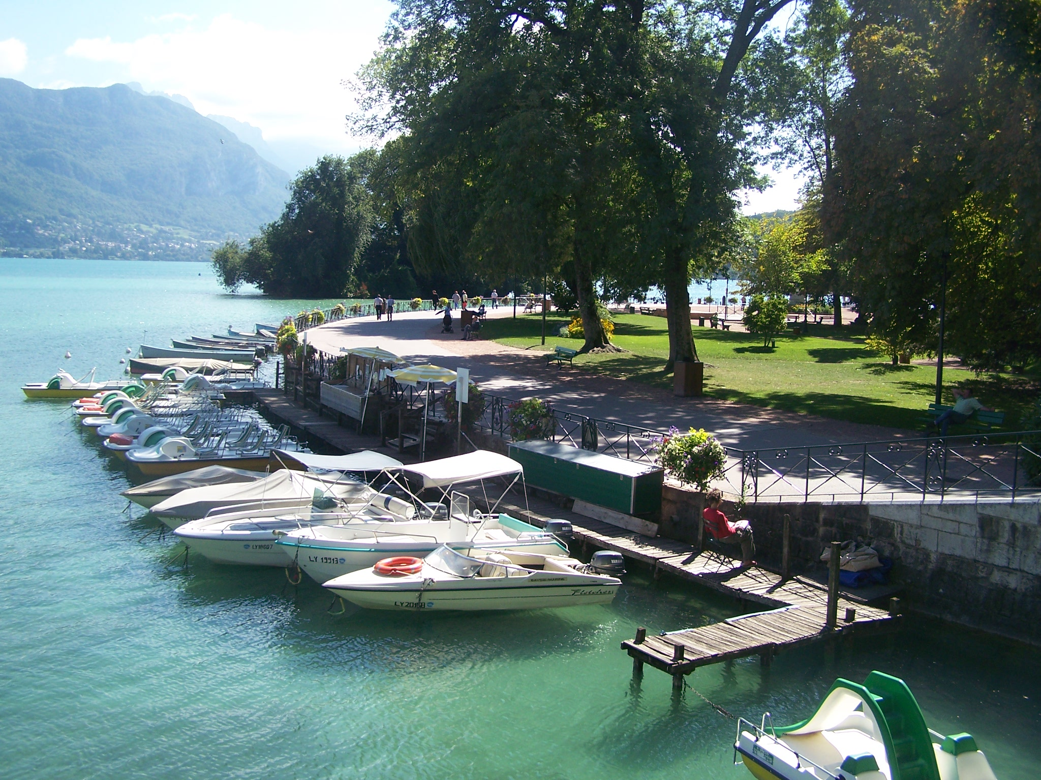 Jardin de l'Europe park, in Annecy (Haute-Savoie, France) at the end of the summer.